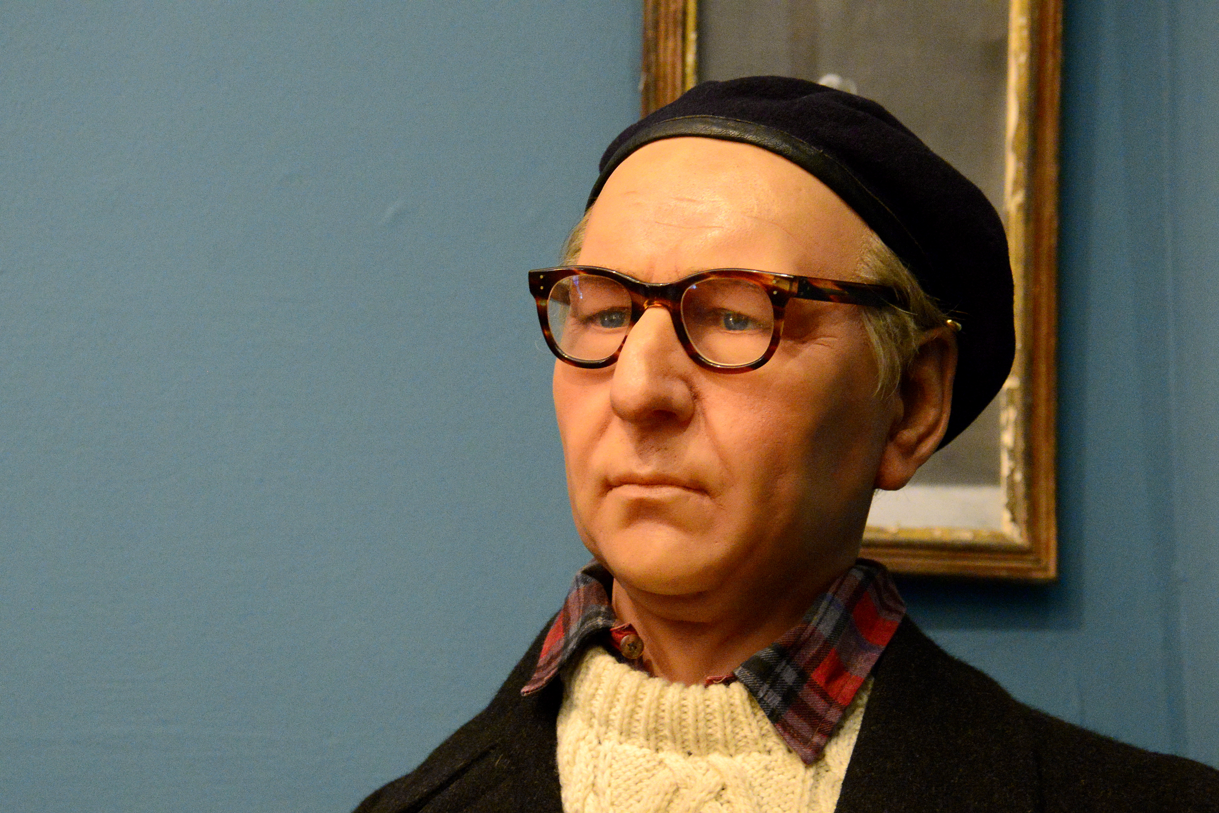 Patrick Kavanagh (1904-1967) was an Irish poet and novelist. He is regarded as one of the foremost poets of the 20th century, and his best-known works include the novel "Tarry Flynn" and the poem "On Raglan Road". Wax sculpture (the name of the sculptor was not mentioned). The National Wax Museum Plus, Dublin, Republic of Ireland.